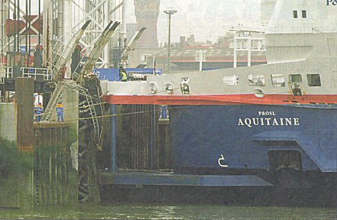 P&O Stena Line MV POSL Aquitaine crashes in to a berth at Calais